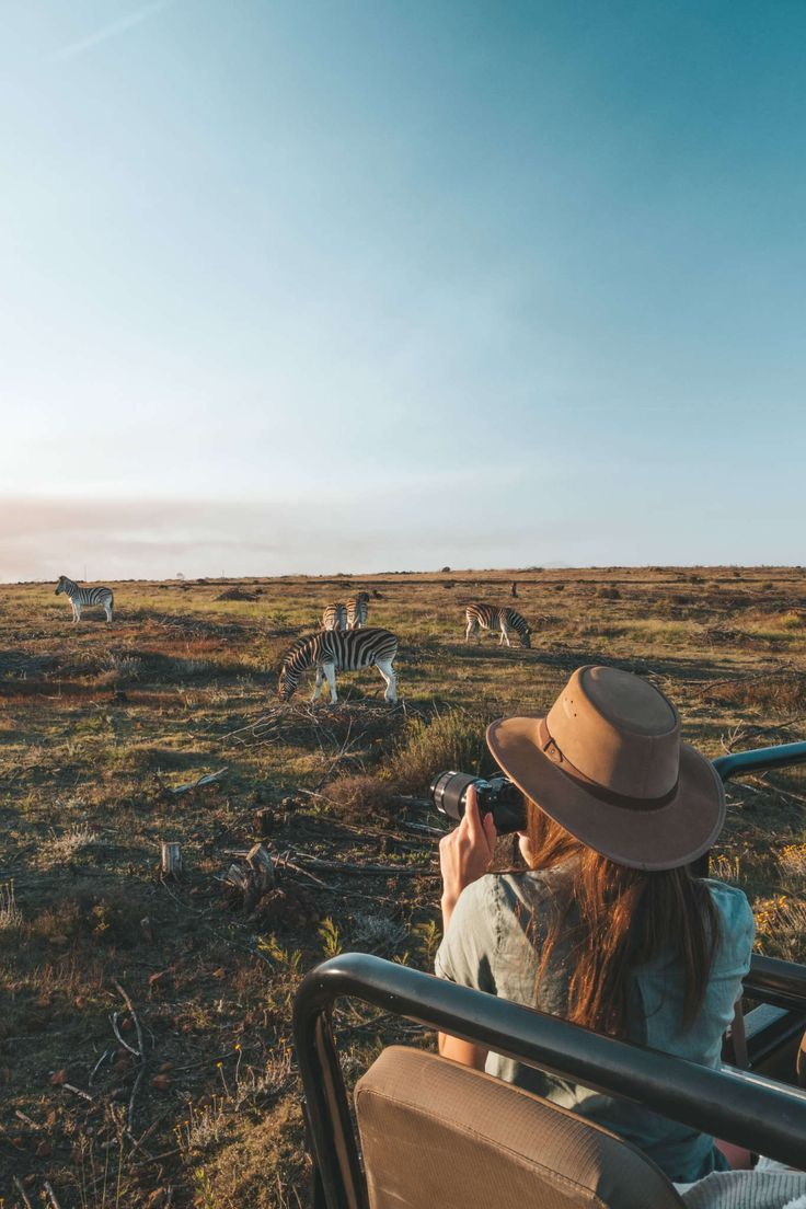 This is an image with the theme "Africa on the Move or Transport" from: South Africa